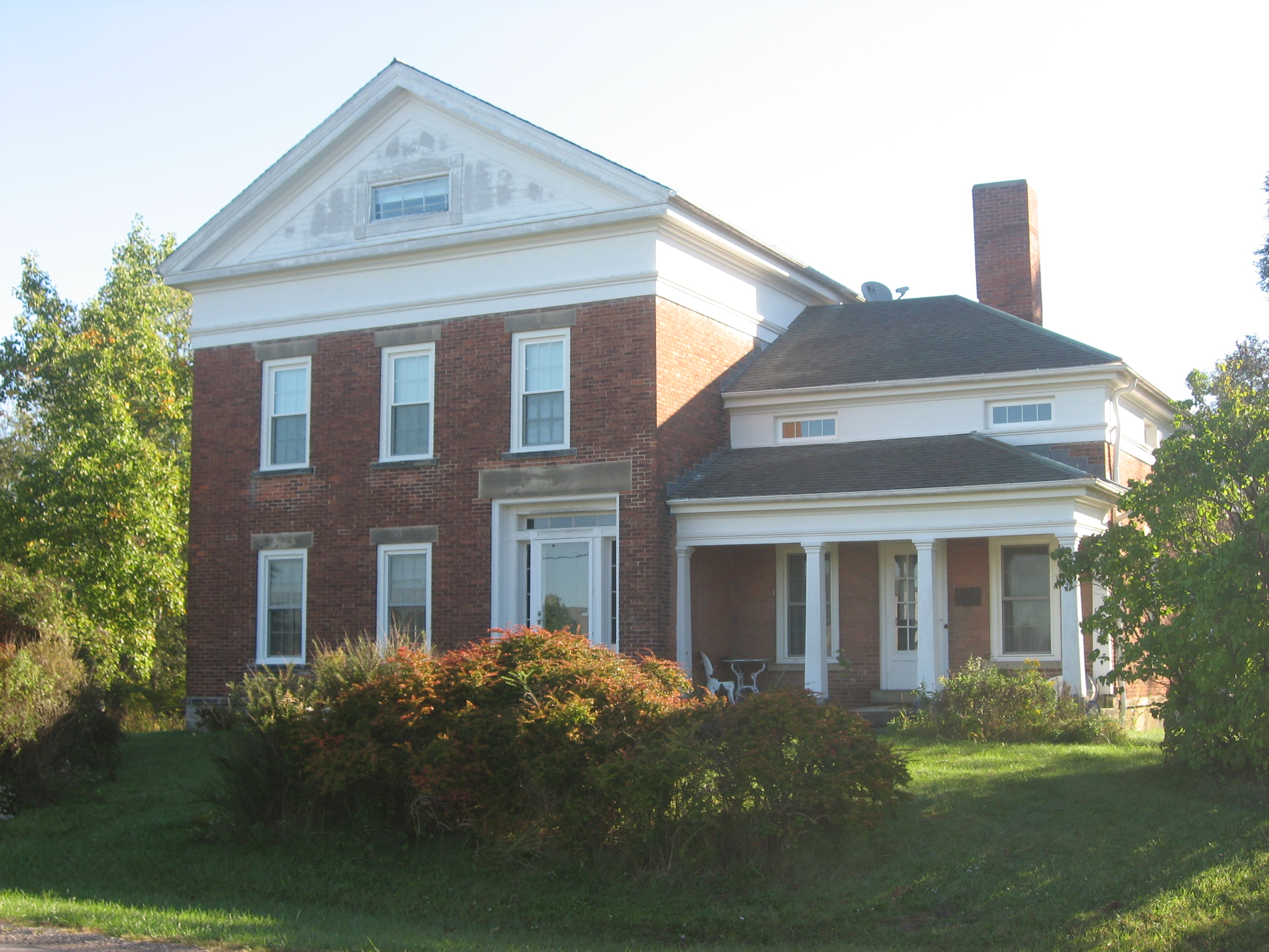 Front and southern side of the Carlos Avery House, located at 18797 State Route 58 north of Wellington in Pittsfield Township, Lorain County, Ohio, United States. Built in 1855, it is listed on the National Register of Historic Places.